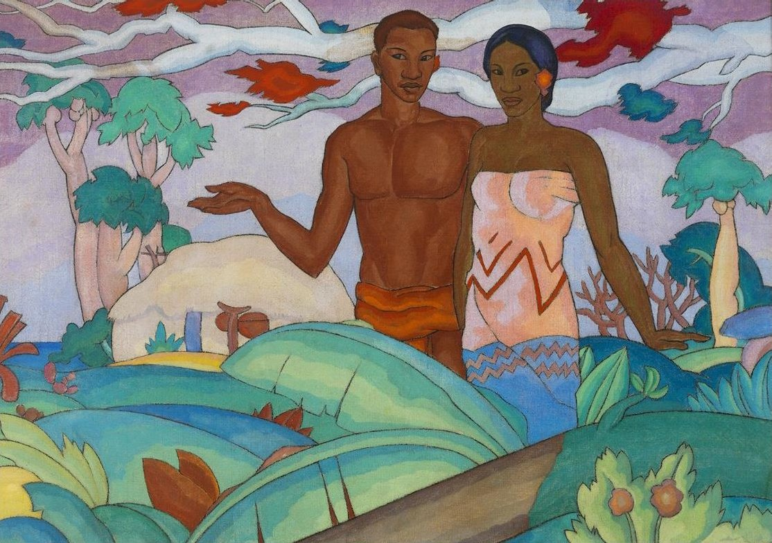 'Hawaiian Boy and Girl', mural by Arman Manookian, 1928, private collection